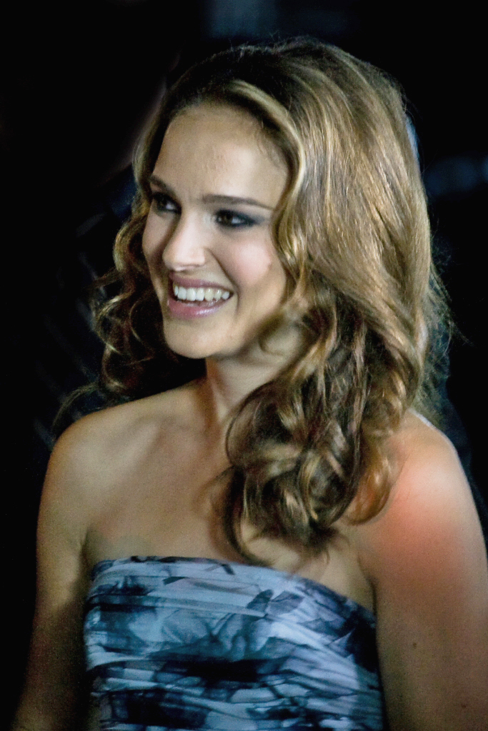 An Israeli-American actress Natalie Portman at the premiere of "Black Swan" directed by Darren Aronofsky, during the Toronto International Film Festival, 2010.